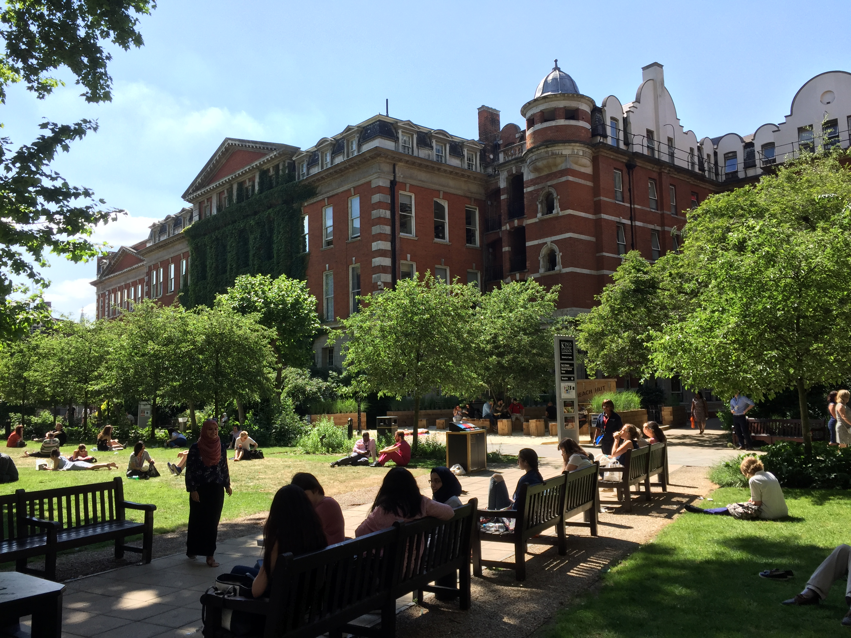 Hodgkin Building, Guy's Campus of King's College London